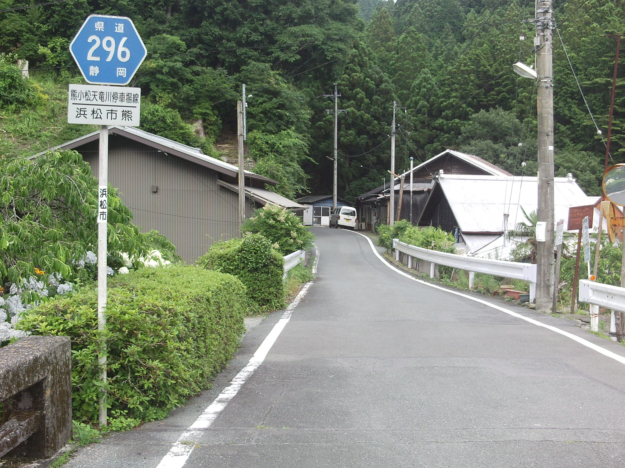 Shizuoka prefectural road No.296 in Kuma, Tenryu-ku, Hamamatsu, Shizuoka.